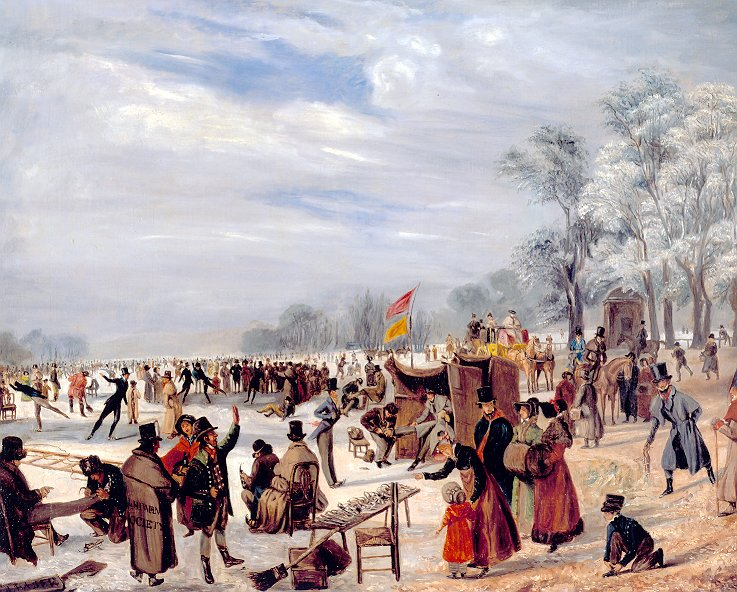 A busy skating scene with crowds of figures on a frozen lake